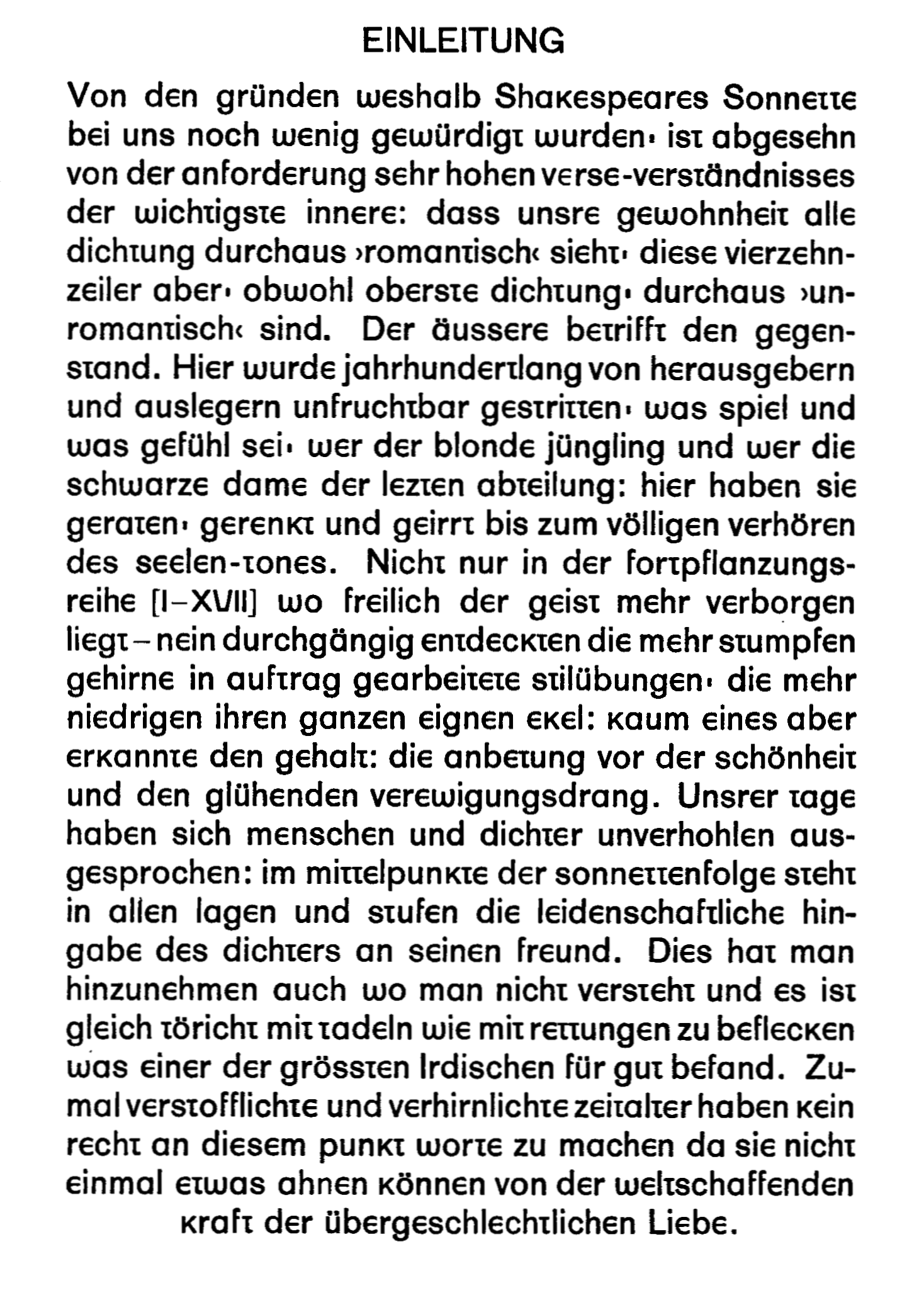 Belongs to translations of William Shakespeare's Sonnets, copy from book